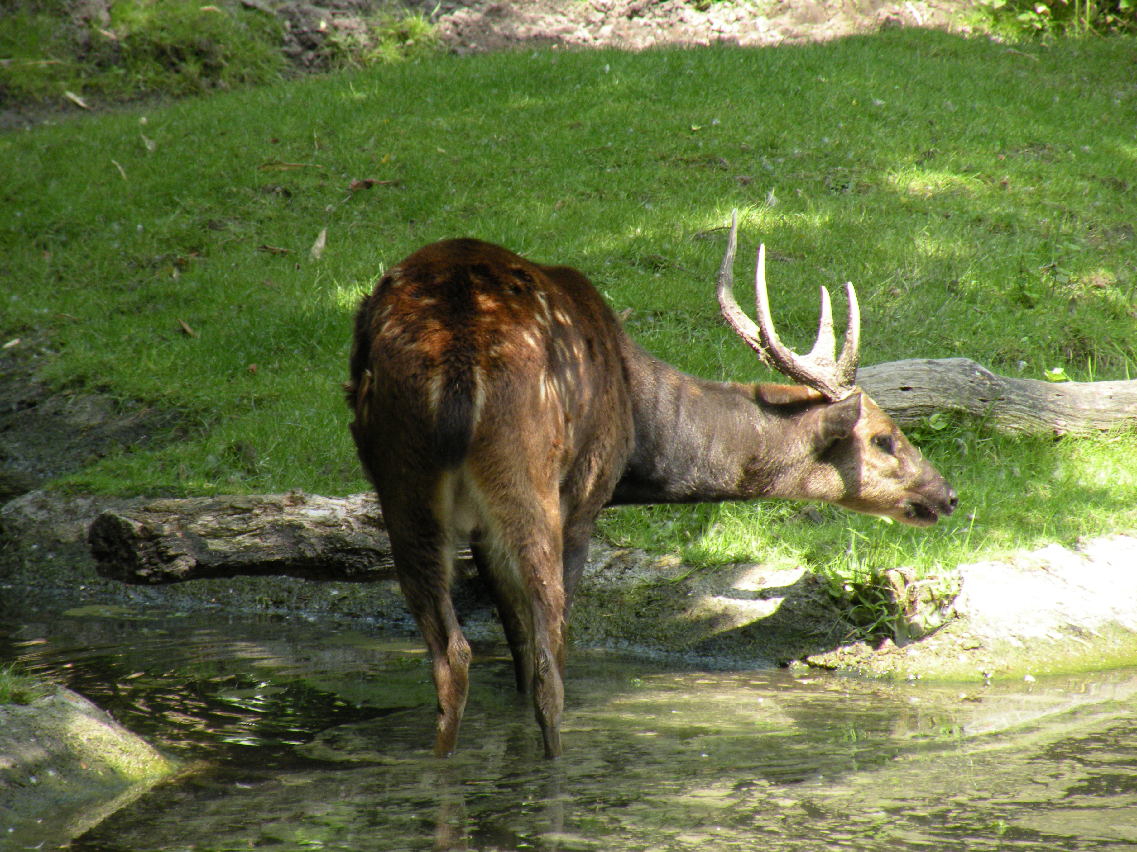 A male Visaya Spotted Deer cervus alfredi in Diergaarde Blijdorp in Rotterdam